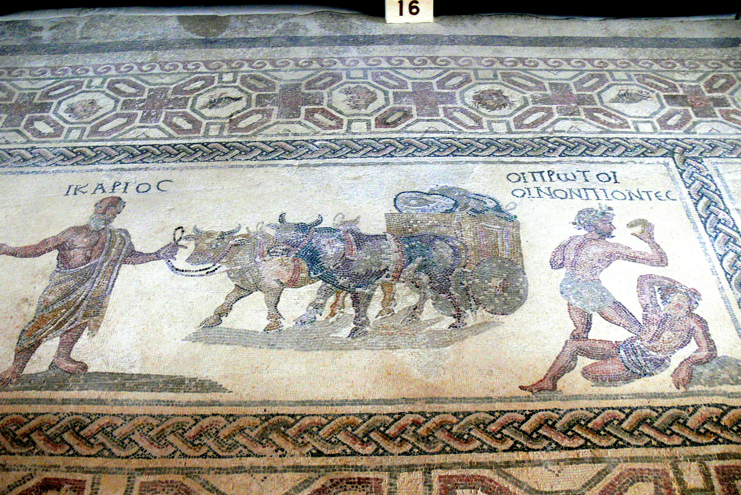 Paphos Archaeological Park. House of Dionysos: Icarios-Mosaic - Icarios with a carriage laden with wine and drunken shepherds.